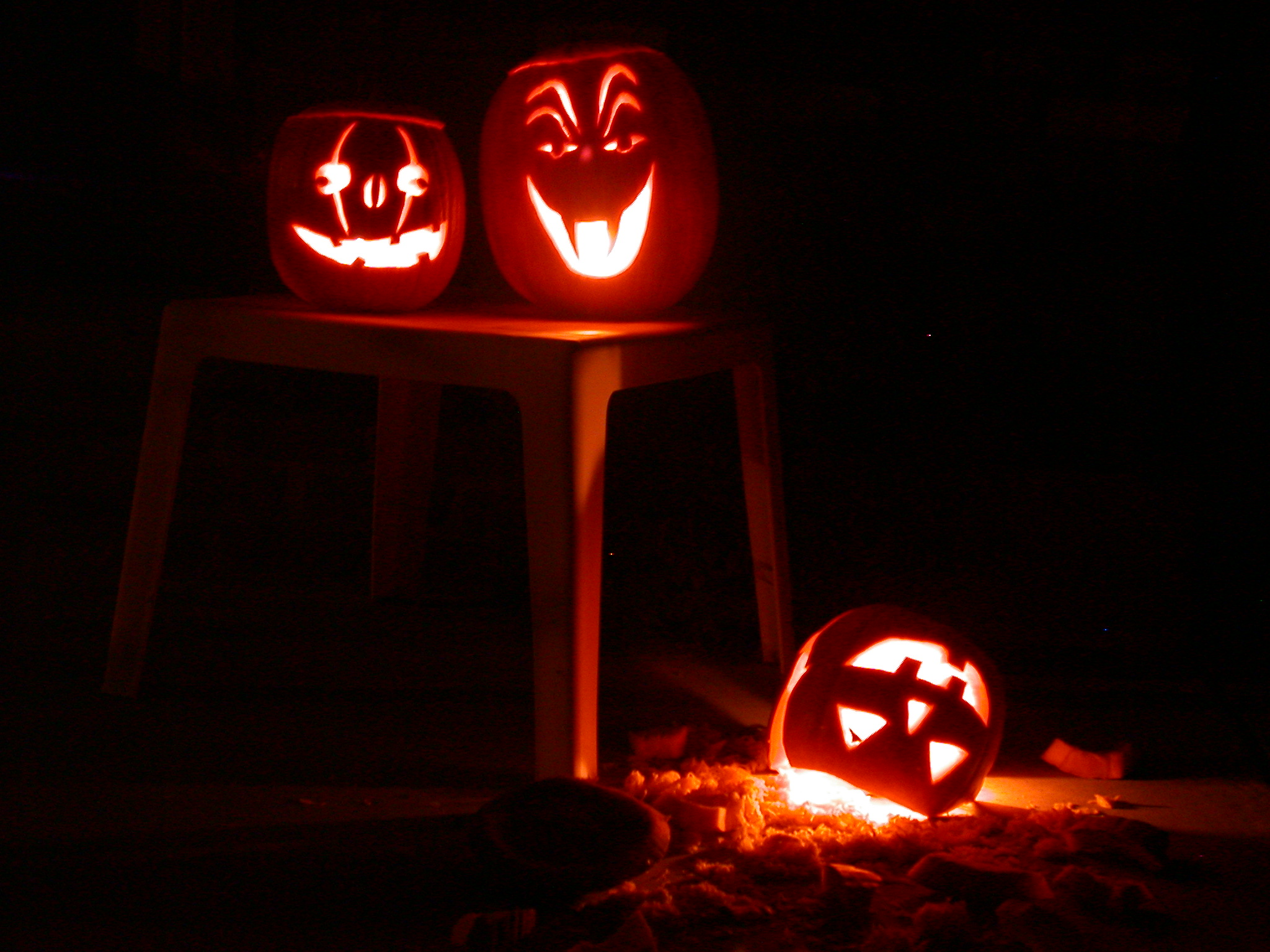 Three Halloween jack-o'-lanterns.